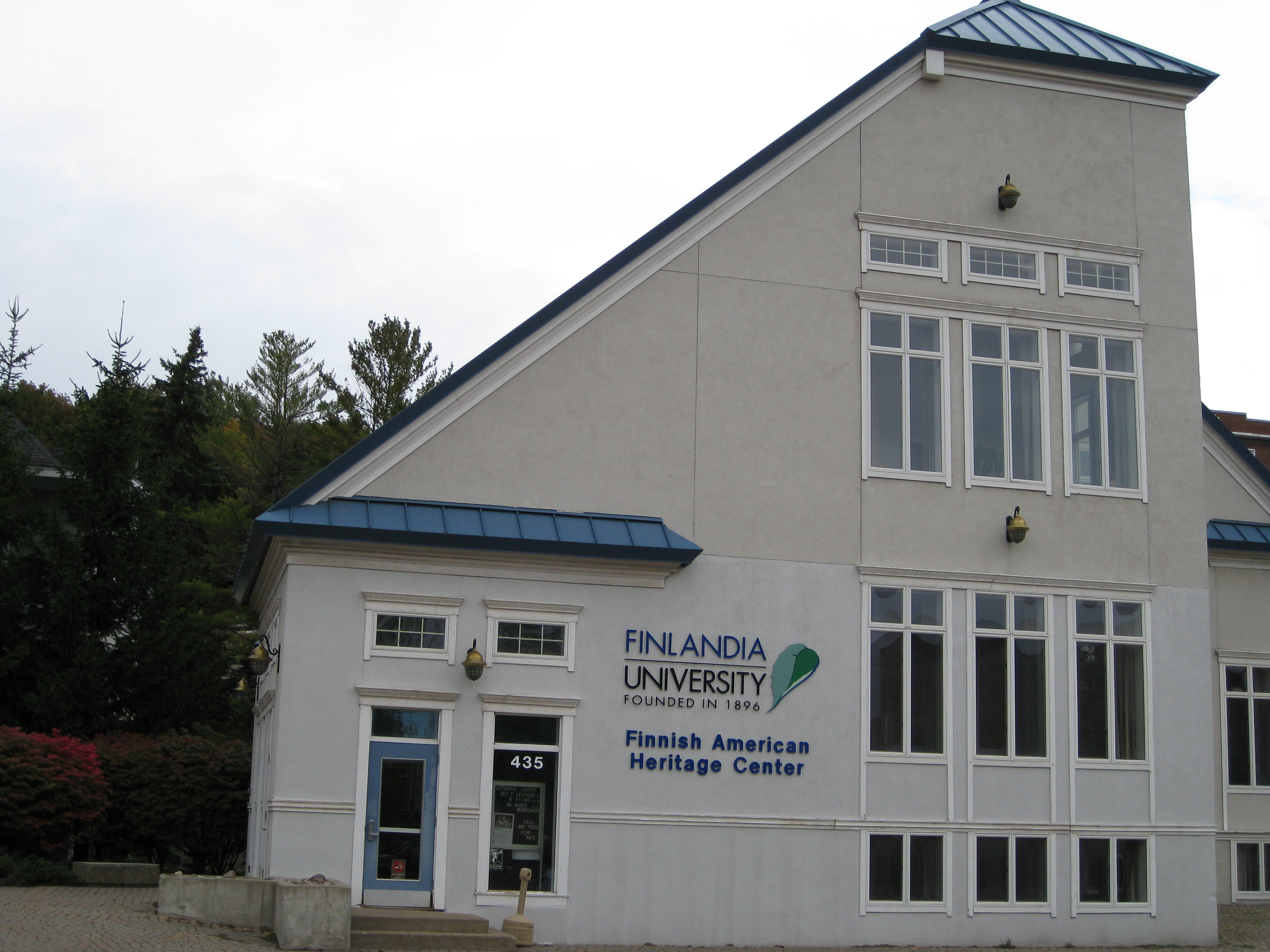 The Finnish American Heritage Center — at Finlandia University in Hancock, Upper Michigan. a cooperating site with the Keweenaw National Historical Park.